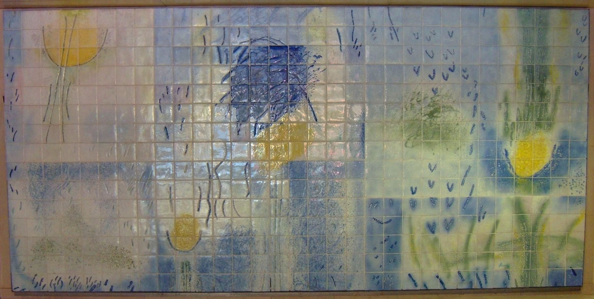 Azulejo by Júlio Resende (painter), 1992, Portuguese Institute of Oncology, Porto - Portugal